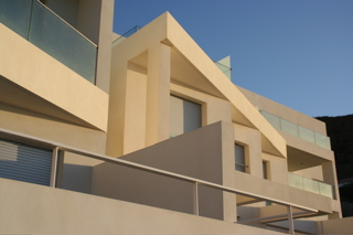 Partial view of façade of residential development designed by Susana Torres and built in Carboneras, Spain.